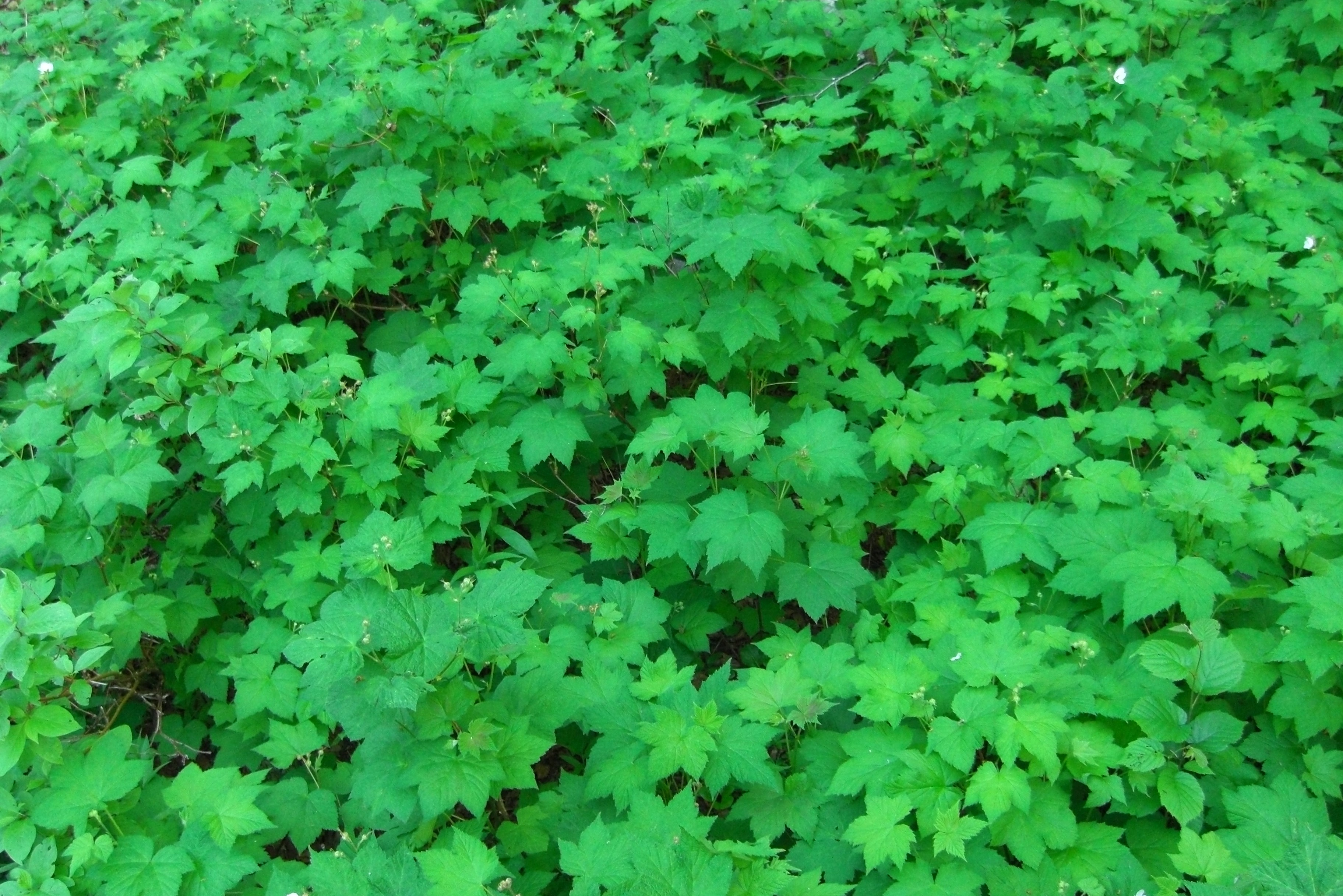 Rubus parviflorus Nutt. 20090610.12 Wells Gray Provincial Park, BC